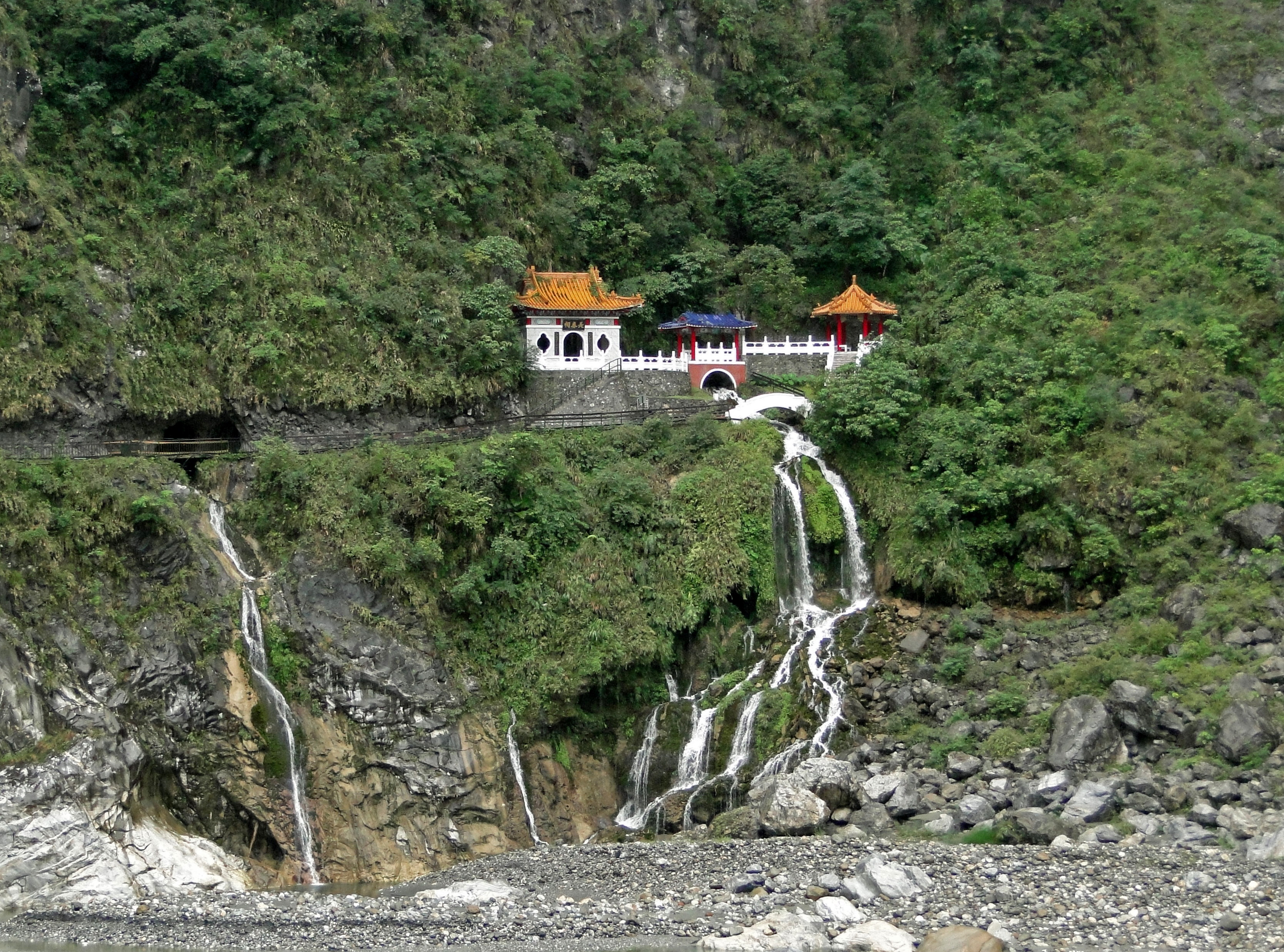 The Changchun Shrine in Taroko National Park, Taiwan